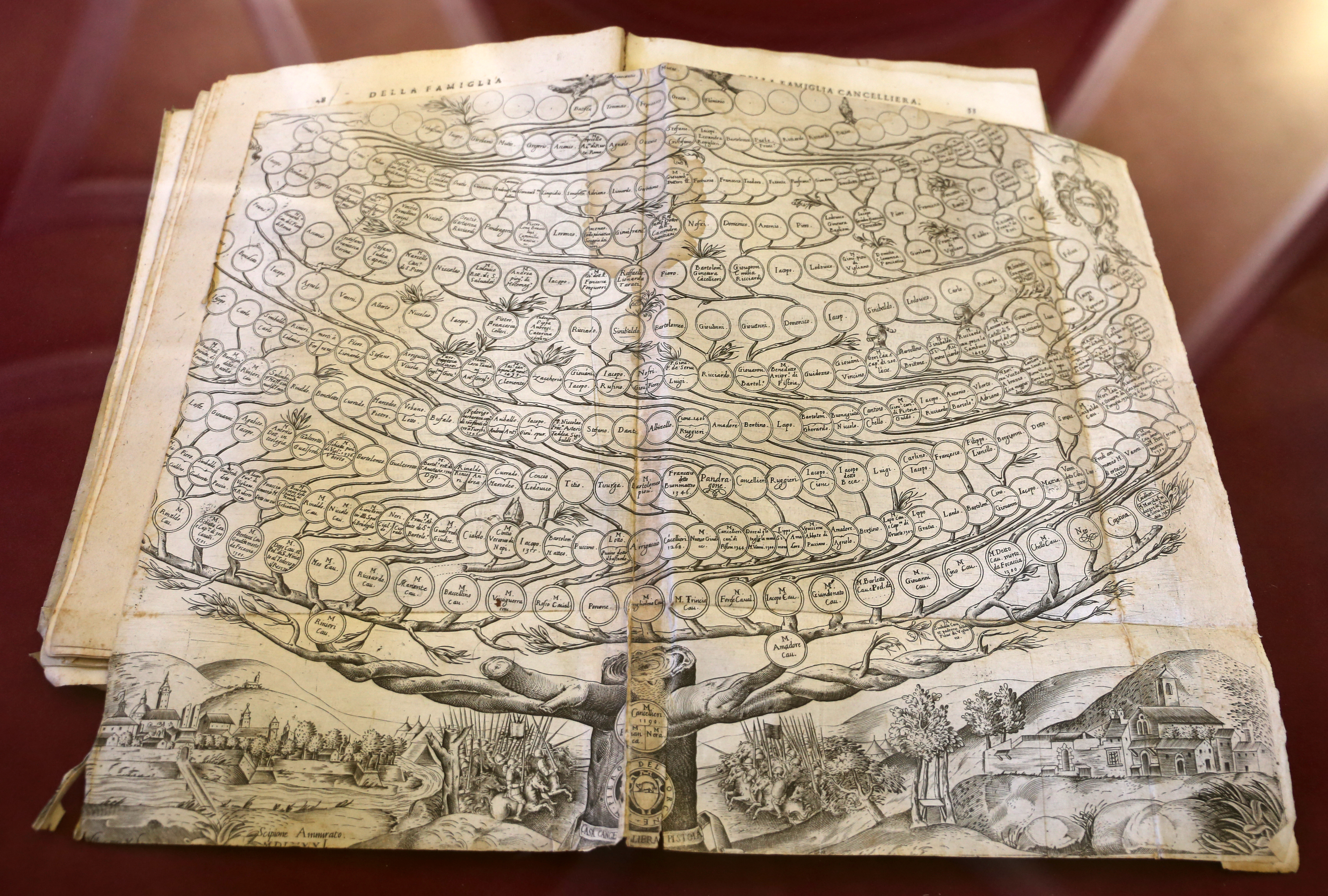 Biblioteca Forteguerriana books